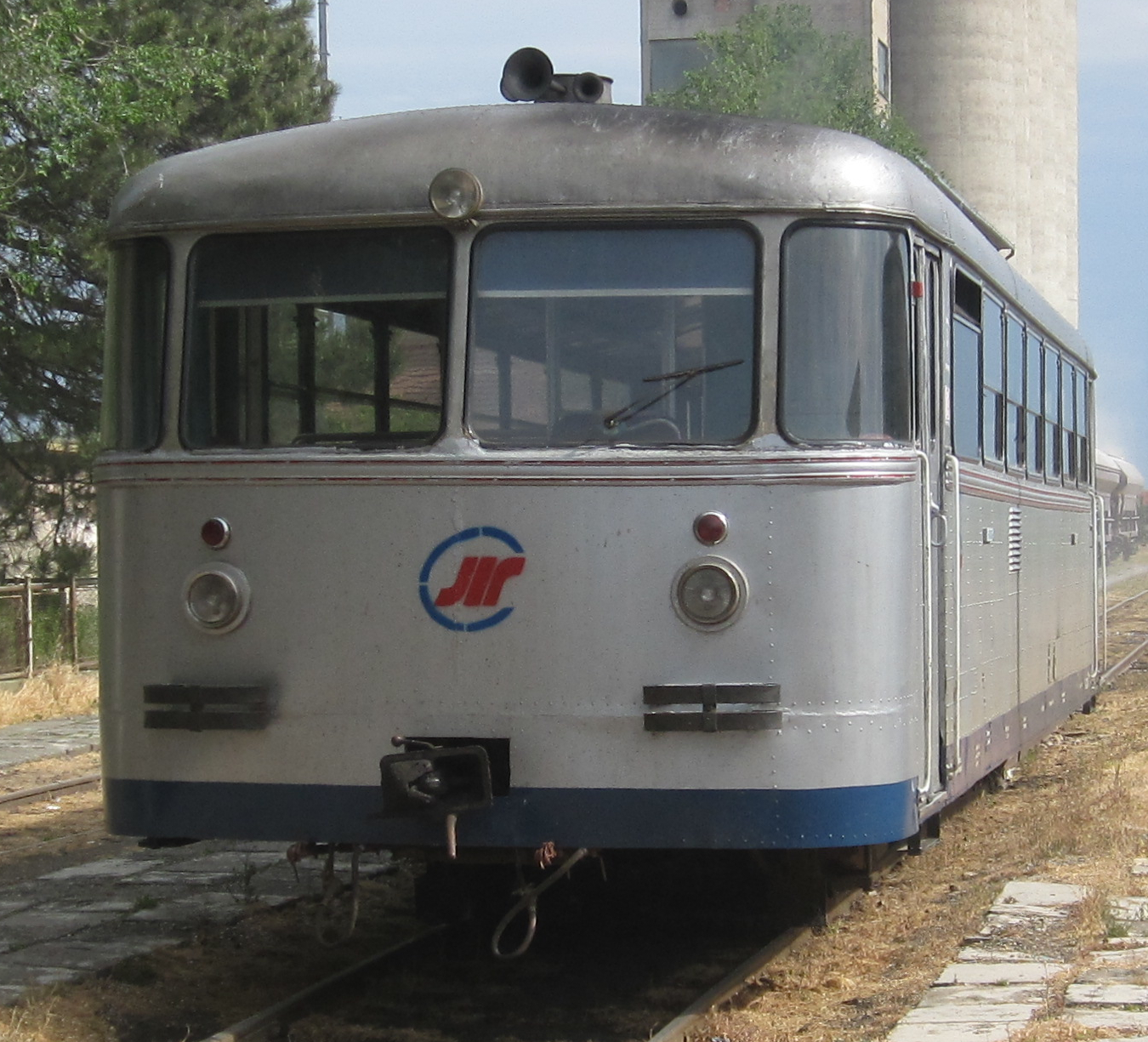 En-route from Subotica to Kikinda. The single car "Šinobus" railcar reverses twice at Senta and here, Banatsko Miloševo. Most of the run was exceedingly slow with speeds barely more than 30 kph.